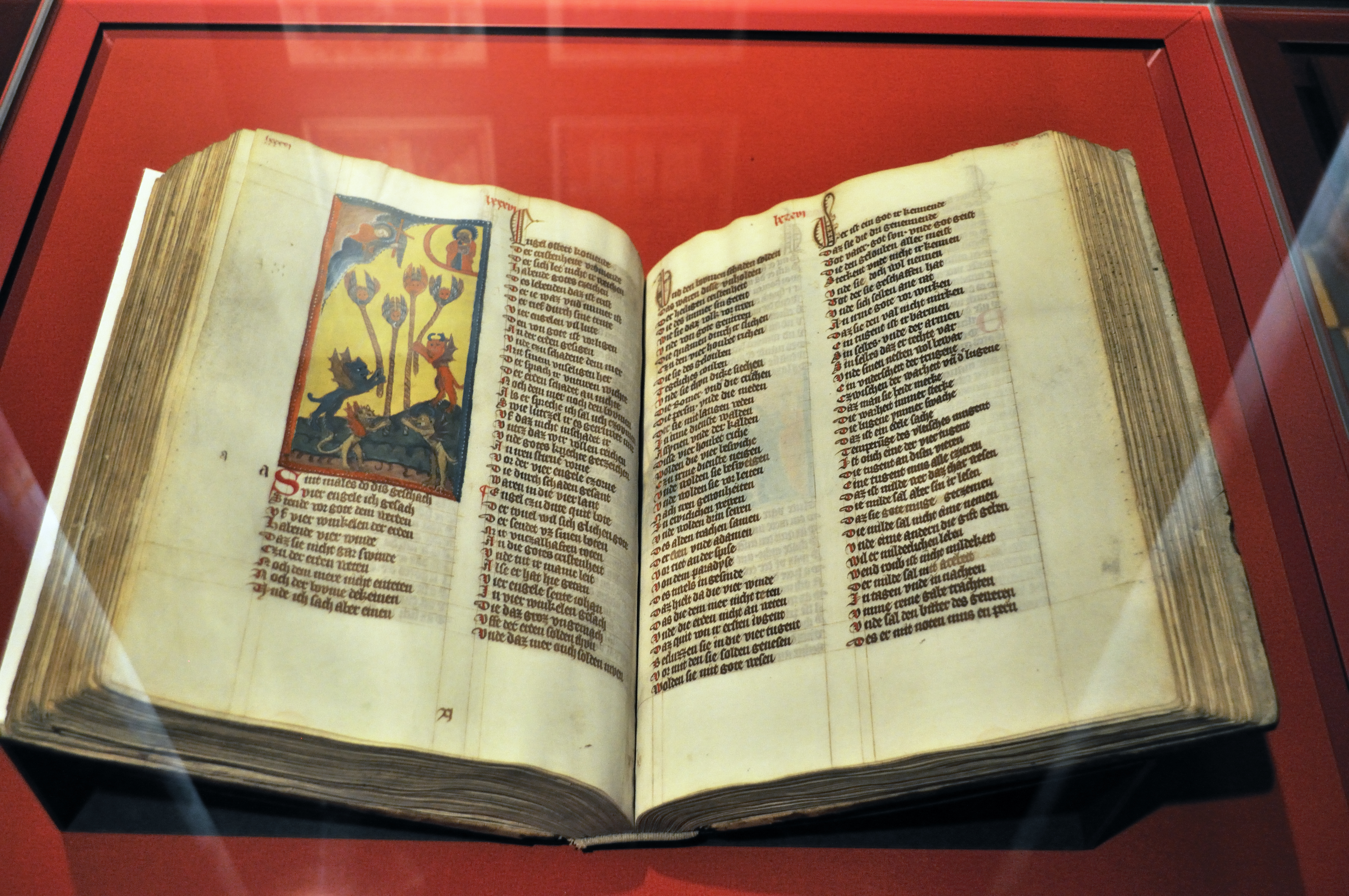 Picture taken in Malborg after Wikimania 2010 conference. This shows the medieval rhymed Apocalypse by Heinrich von Hesler, see the description of the codex here)